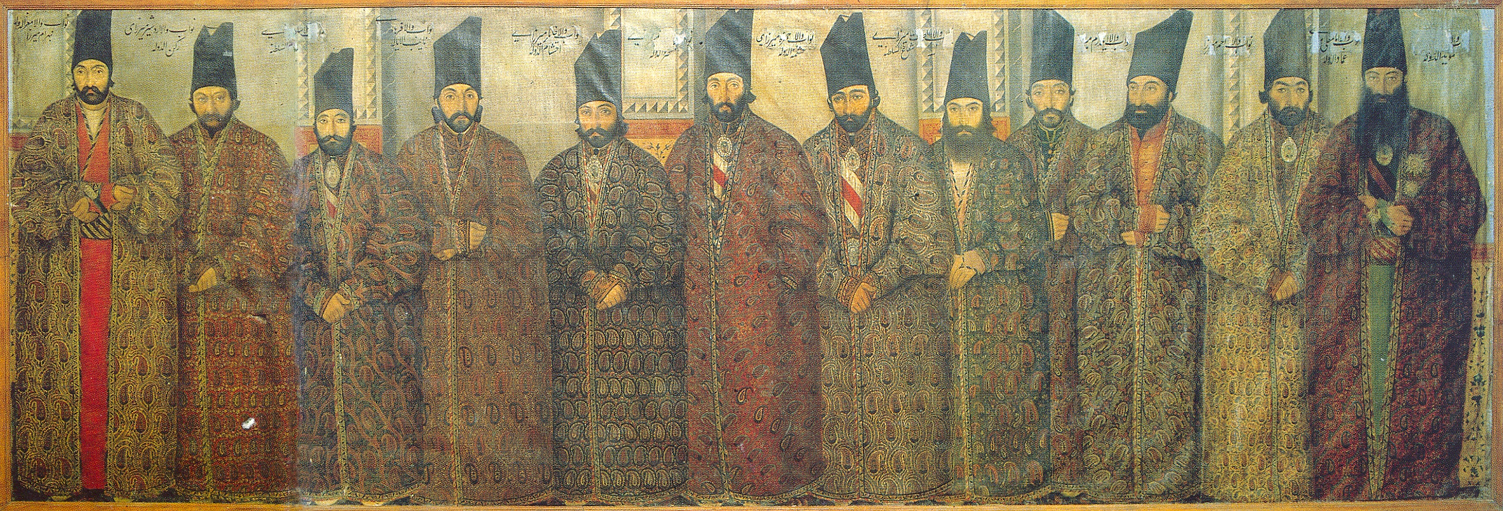 Nezāmiyeh Hall Panel Oil on canvas Golestan Palace Museum